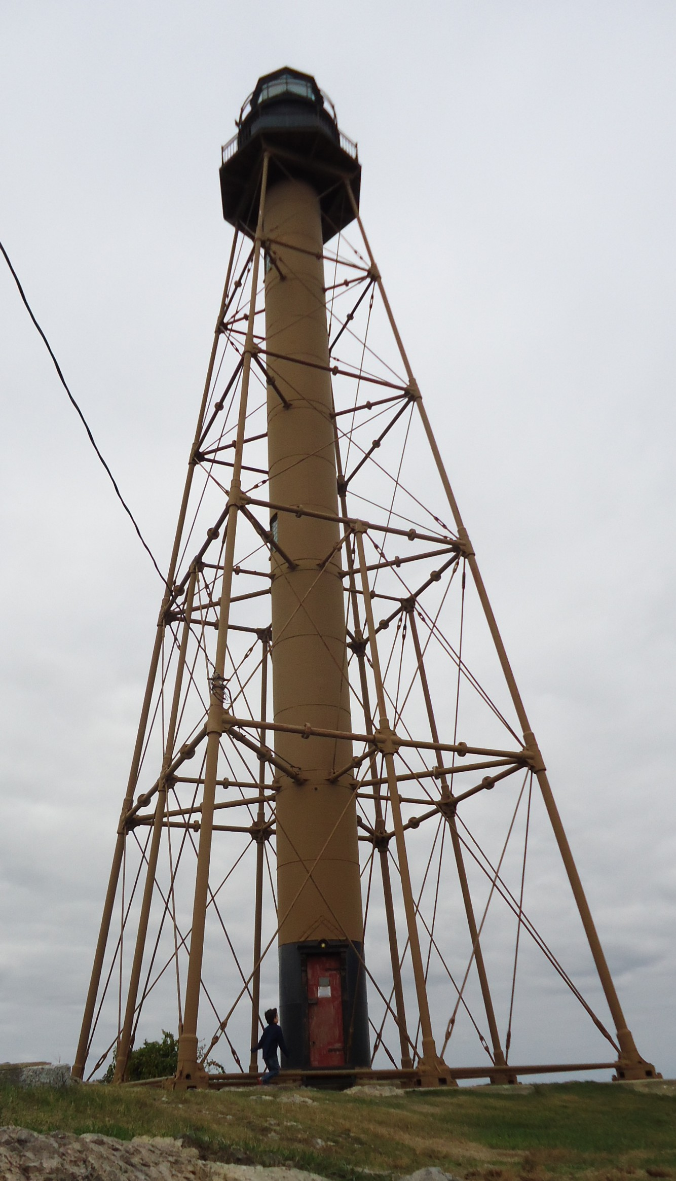 Lighthouse, along harbor at Marblehead, on the peninsula, in Marblehead Massachusetts, early autumn.